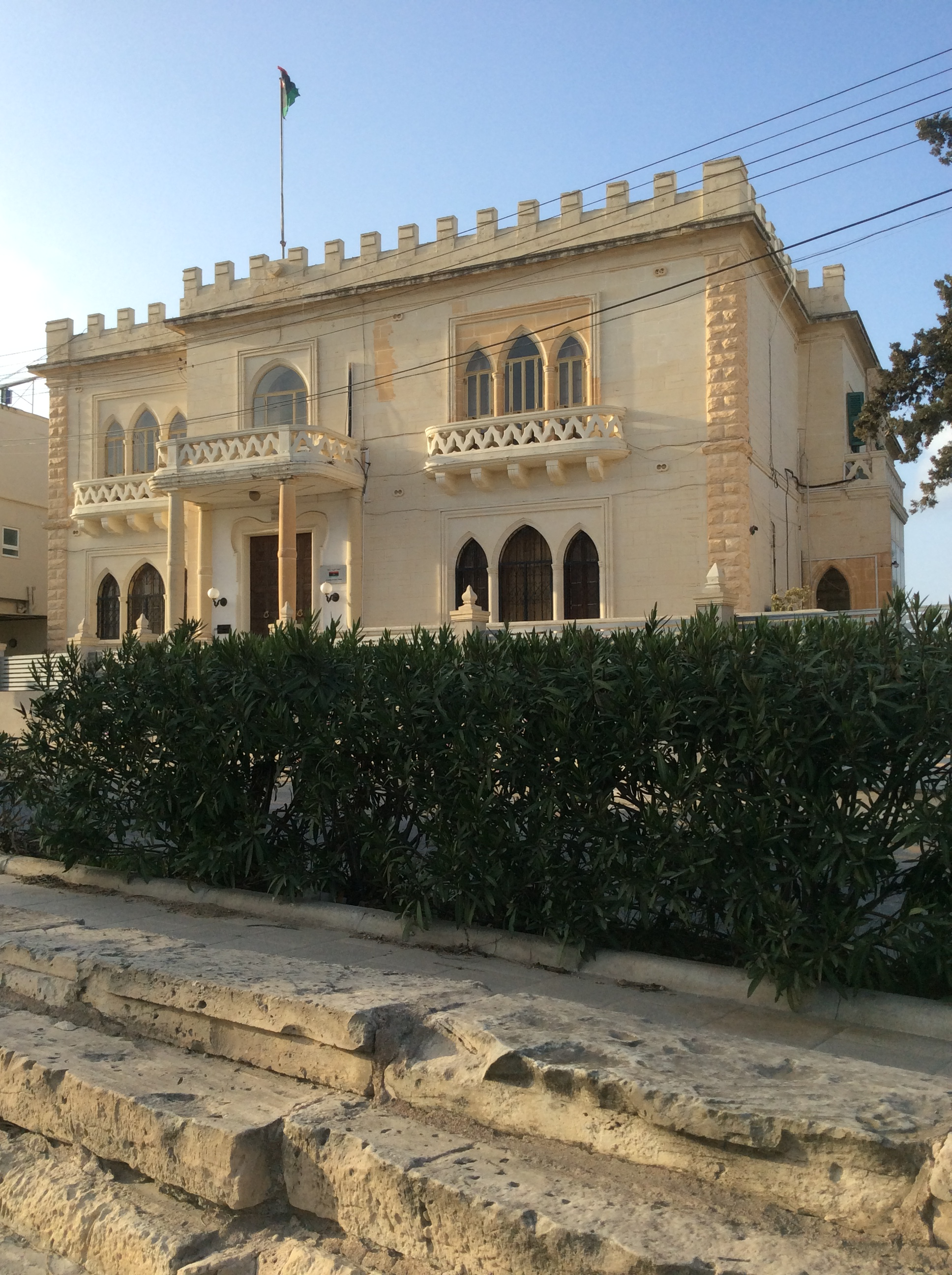 Dar Hena, Libyan Embassy in Attard